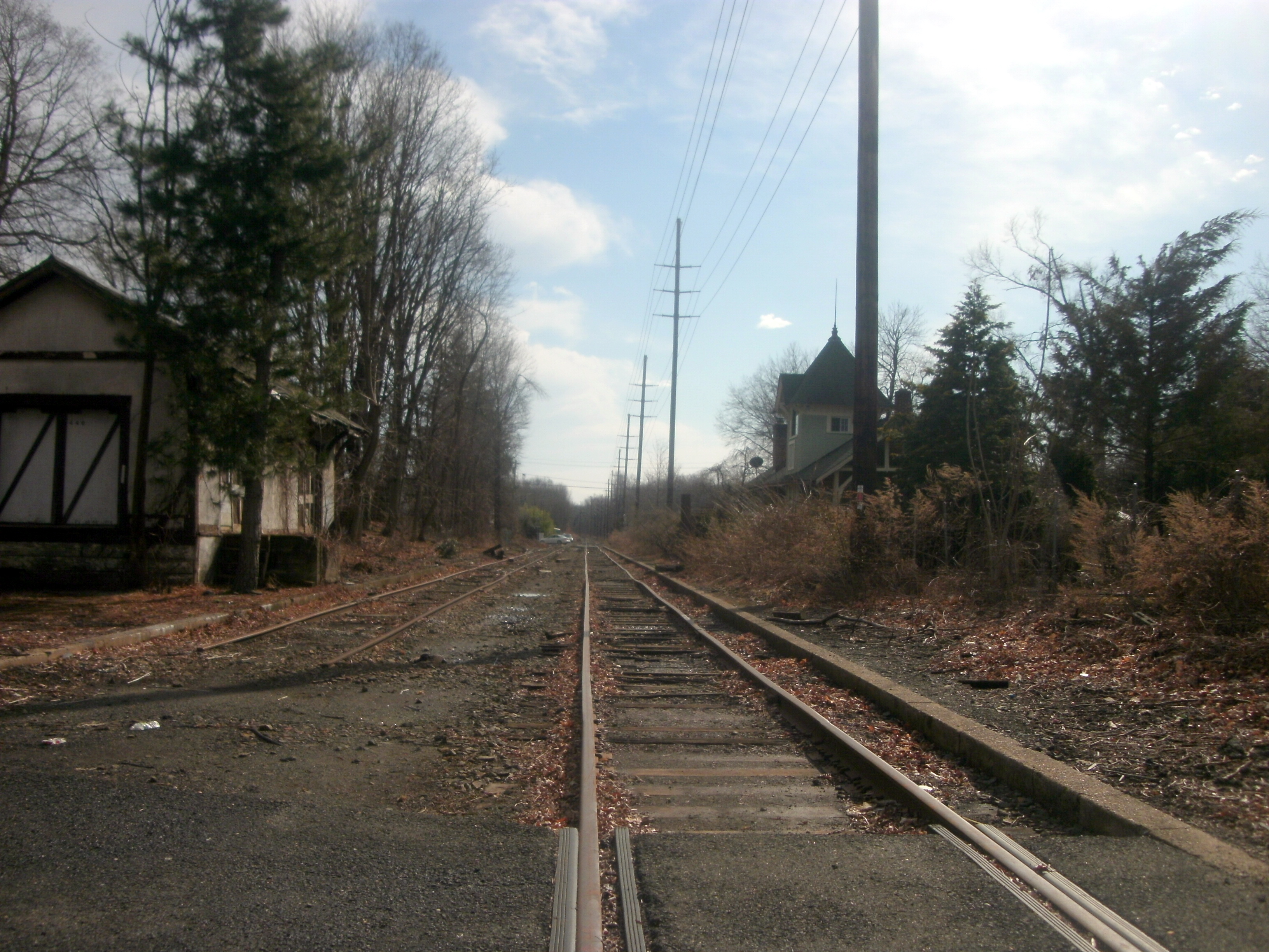 Closter, New Jersey Station of the Erie Railroad's Northern Branch as seen from the north. The former freight house is on the left side and the former station depot is visible behind the pole.